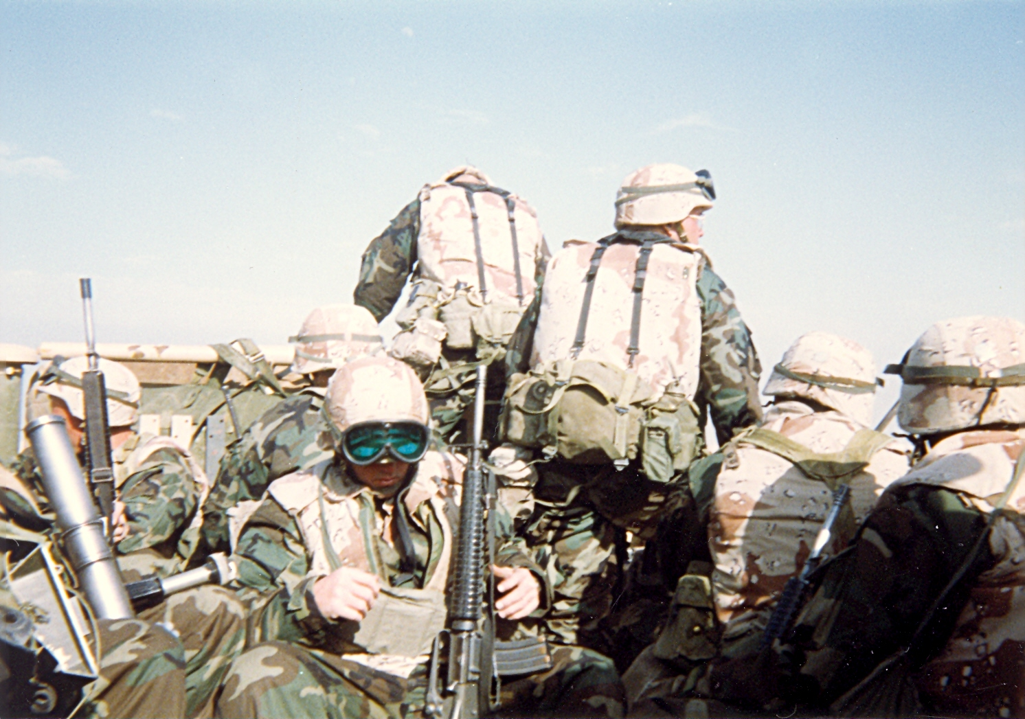 60mm Mortar Section, Weapons Platoon, Bravo Company, 1st Battalion, 3d Marines on the move in a truck during the Ground War of Operation Desert Storm. The unit was part of Task Force Ripper. Photograph taken somewhere near the 2d minefield belt in the Burgan Oil Field, Kuwait.